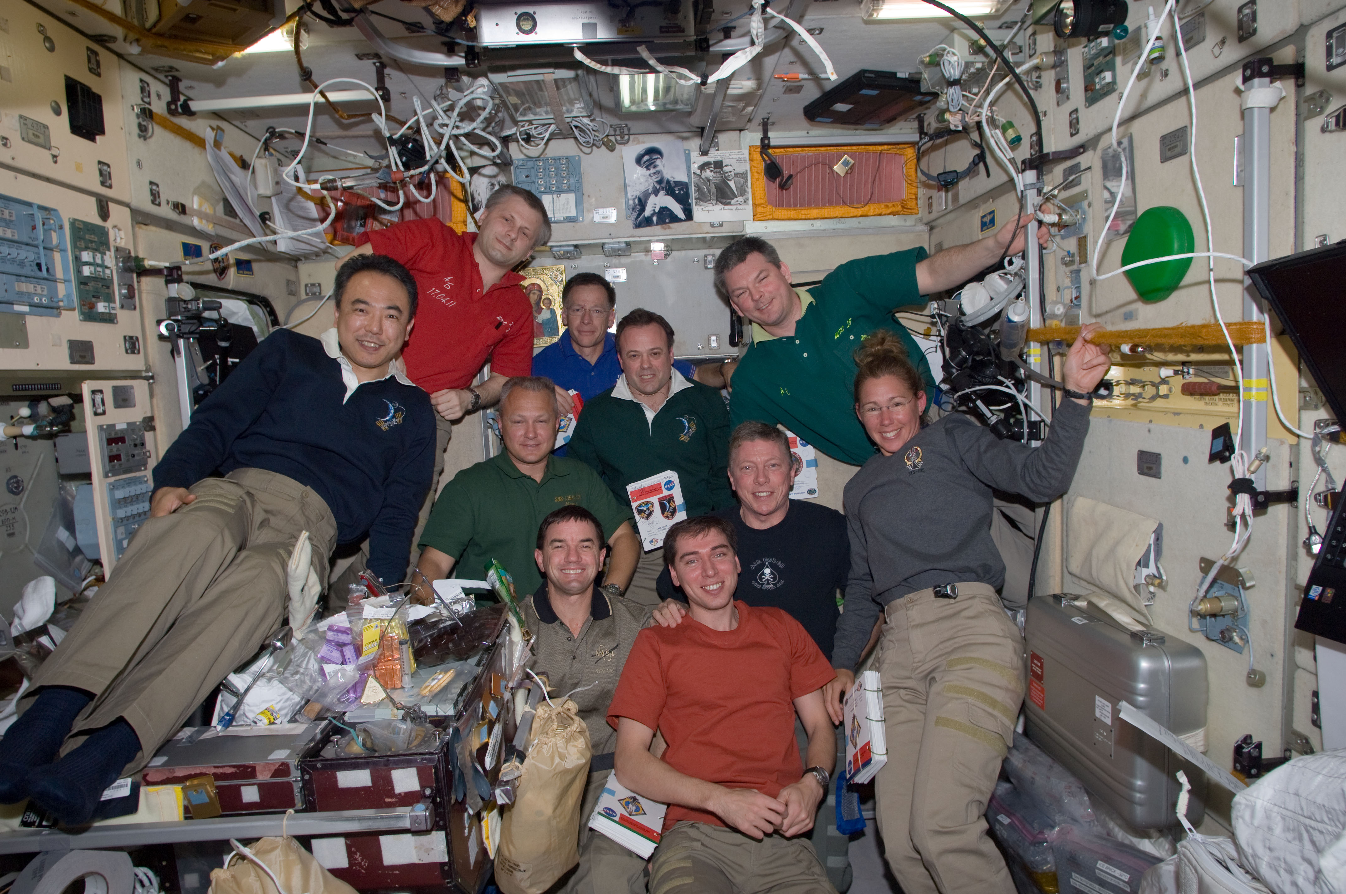 Inside the Zvezda service module on the International Space Station, space shuttle Atlantis and station crewmembers take a break from an extremely busy work agenda for photos and a social period. Not much time remains for such reunions, as undocking and separation activities are scheduled for a little over 48 hours from the time this photo was made. The STS-135 crew consists of NASA astronauts Chris Ferguson, Doug Hurley, Sandy Magnus and Rex Walheim; the Expedition 28 or station crew members are JAXA astronaut Satoshi Furukawa, NASA astronauts Ron Garan and Mike Fossum, and Russian cosmonauts Andrey Borisenko, Alexander Samokutyaev and Sergei Volkov.